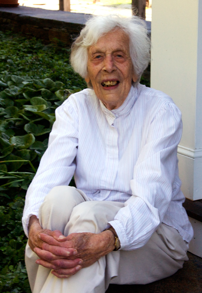 Freya von Moltke in the summer of 2009